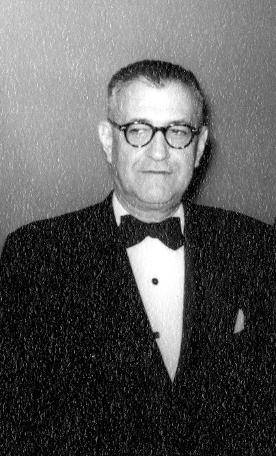 Walter R G Baker at Eminent Member ceremony of Eta Kappa Nu in 1954